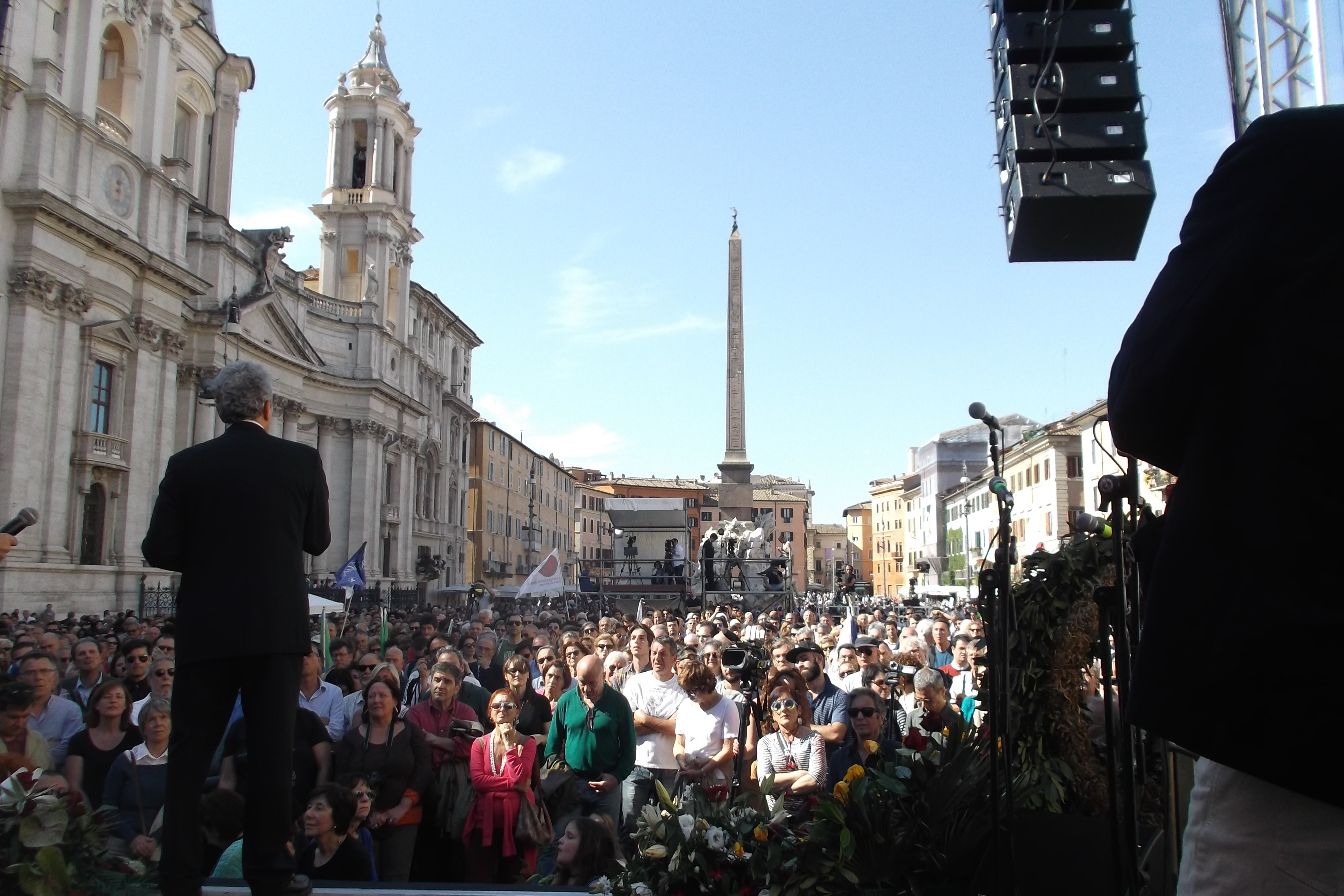 Former mayor of Rome Francesco Rutelli (standing) speaks during the civil funeral of the Italian activist and politician Marco Pannella, Rome, Piazza Navona